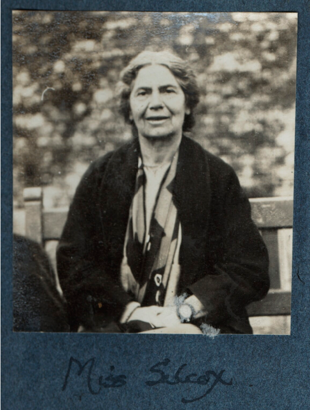 Lucy Mary Silcox (July 11, 1862 – January 11, 1947) was an English headteacher and feminist.